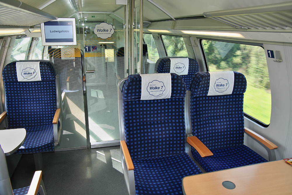 First class section Wolke 7 (cloud seven) on a RE160 double-decker car in the Berlin/Brandenburg area.